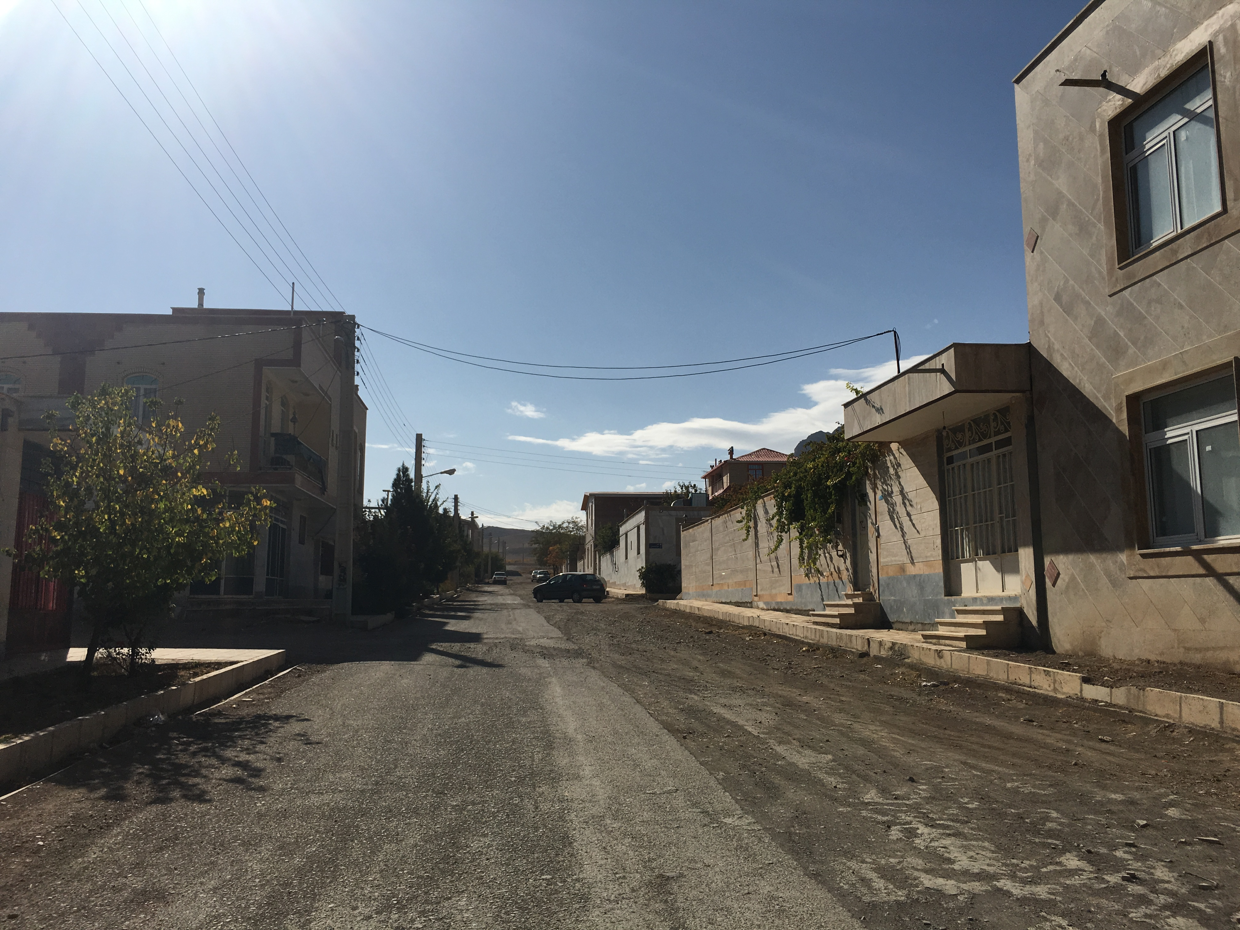 Modern houses in Khorheh, Markazi